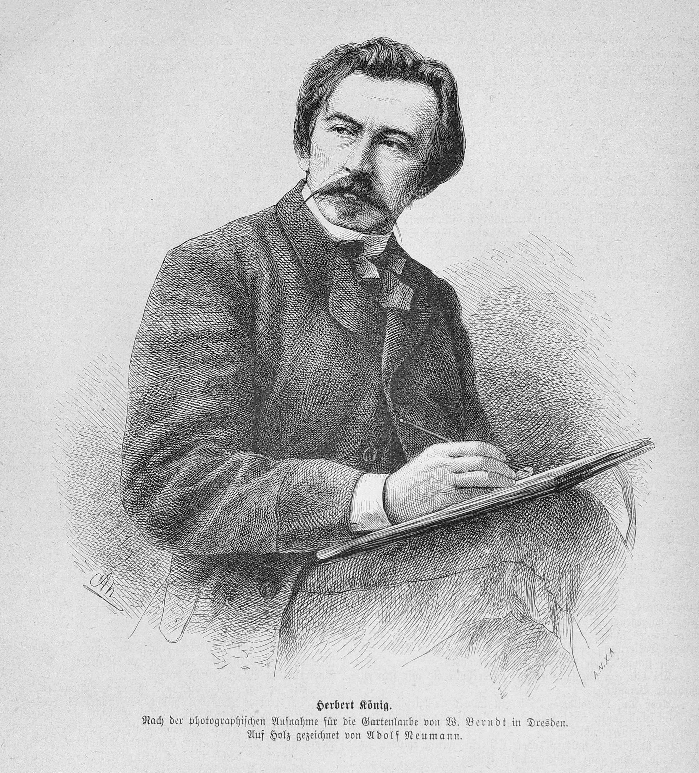 caption: "Herbert König. Nach der photographischen Ausnahme für die Gartenlaube von W. Berndt in Dresden. Auf Holz bezeichnet von Adolf Neumann."